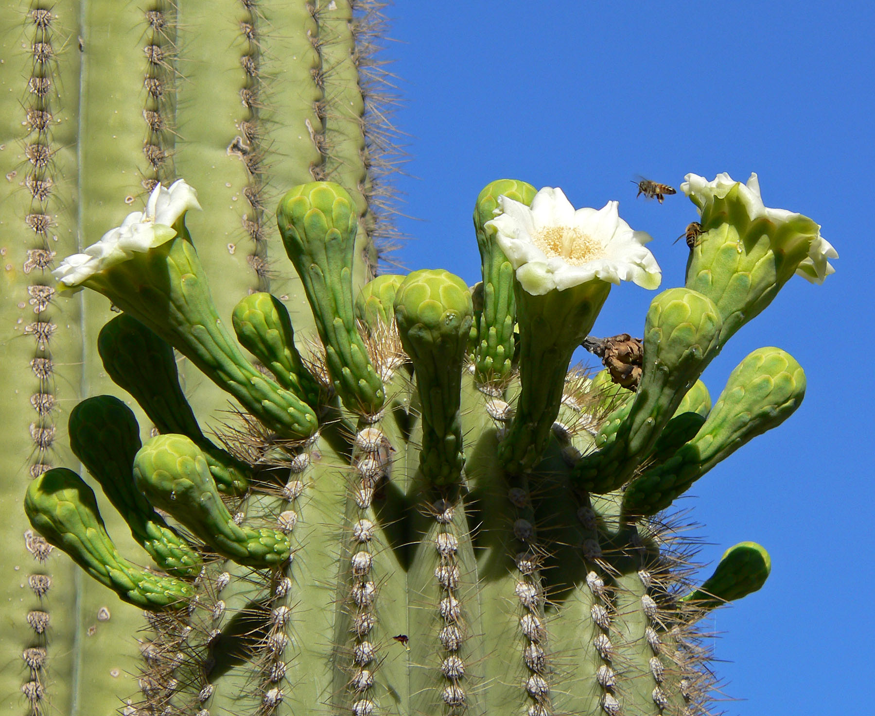 Carnegiea gigantea at the Ethel M Botanical Cactus Garden, Las Vegas, Nevada